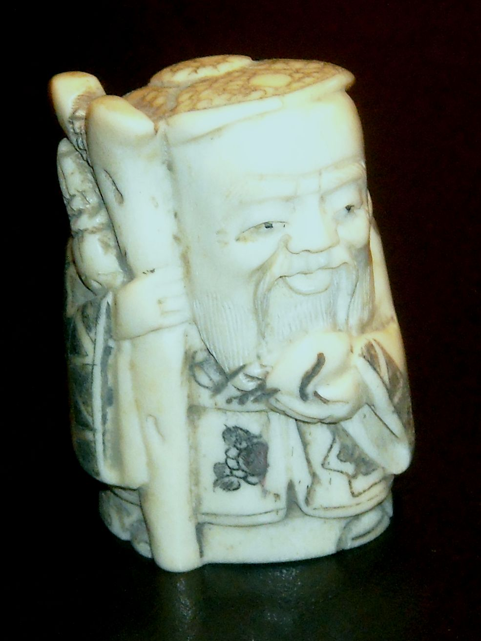 Jurojin netsuke, ivory. Supposedly the end of the 19th century. This artwork is old enough so that it is in the public domain.